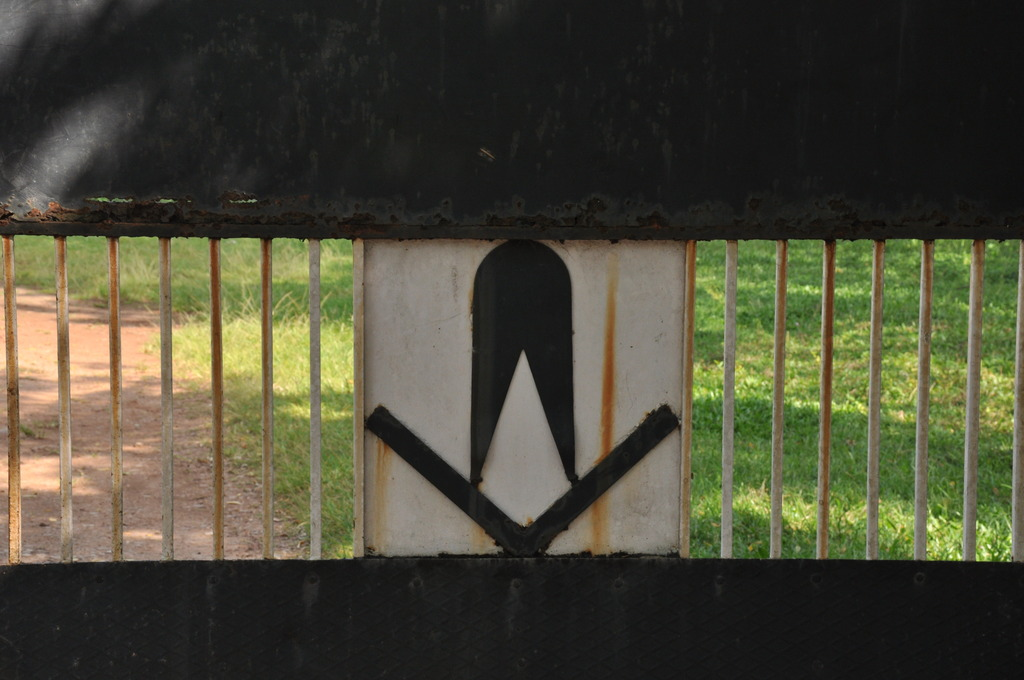 Free mason Logo in the gate of Kollam masonic hall